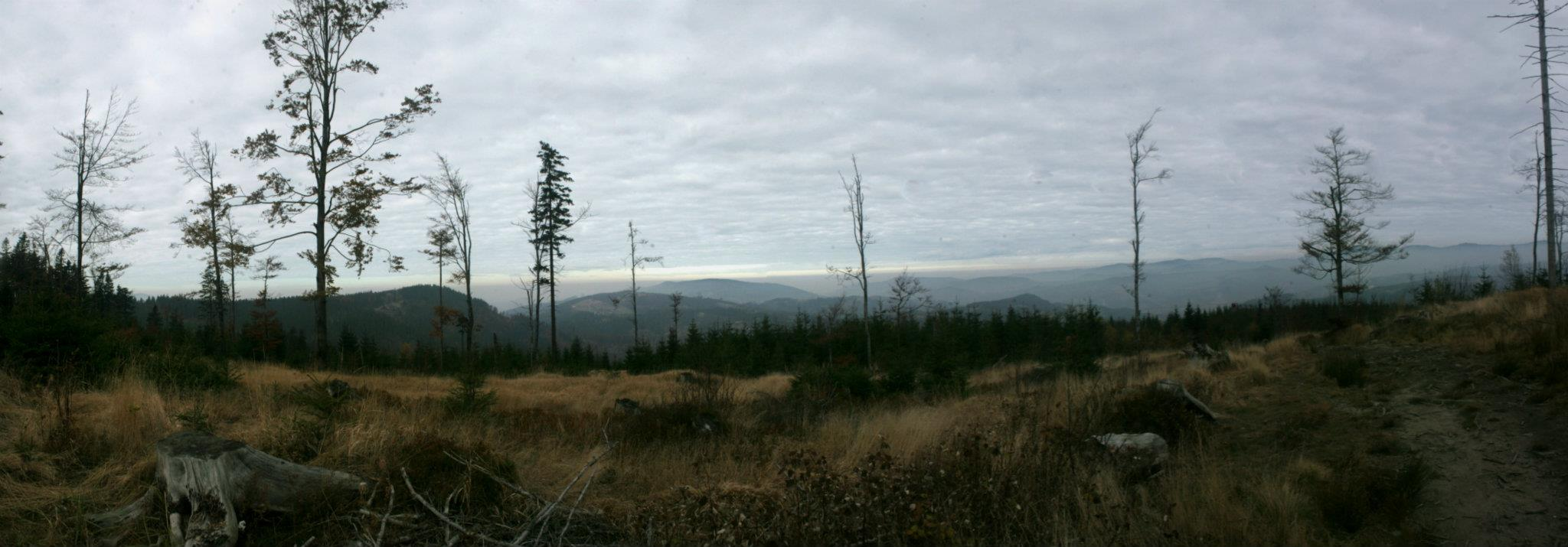 Kiczory - panorama in direction of Wisła (city, Poland)